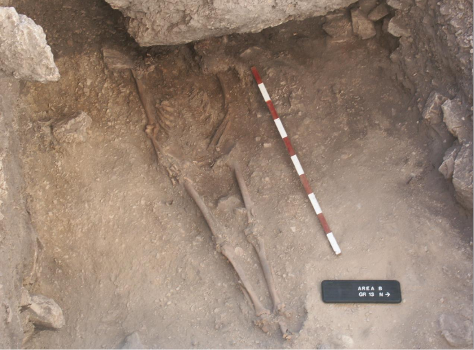 First Anatolian hunter-gatherer. Excavated from Pınarbaşı. Dated to 13,642–13,073 cal BCE. Feldman et al. (2019) Late Pleistocene human genome suggests a local origin for the first farmers of central Anatolia.